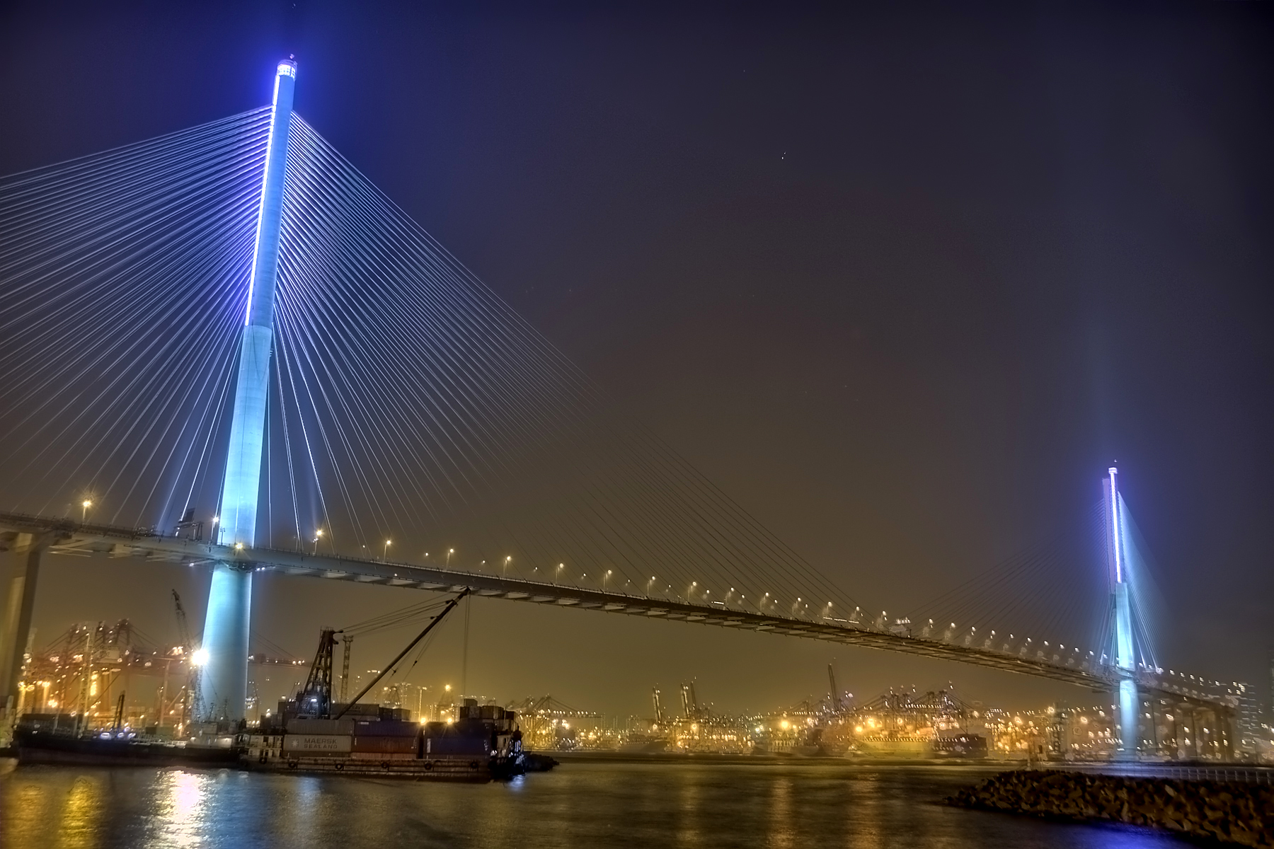 The Stonecutters Bridge over the Rambler Channel in Hong Kong